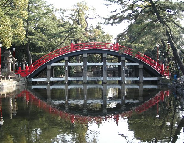 Bridge at the Sumiyoshi shrine in Osaka